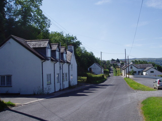 Graigfechan. The village of Graigfechan, near Ruthin. The inn on the right is the Three Pigeons which dates back to the 17th. century when it provided refreshment and accommodation for drovers who walked thousands of cattle across the hills to market in Wrexham, using the same wide tracks that remain today. Most were bound for England to meet the demand from the rapidly growing cities and towns.